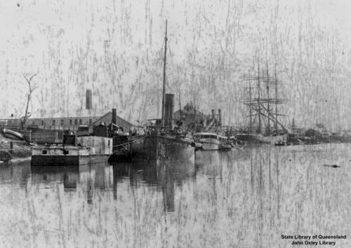 Bonito, Hydra and Falls of Afton at South Brisbane, Queensland